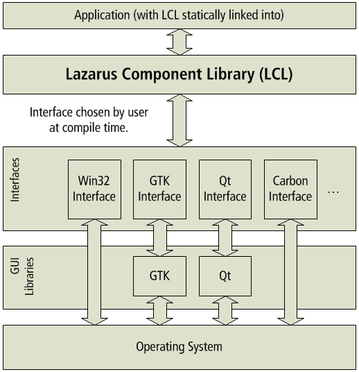 Flow chart of LCL components in Lazarus IDE